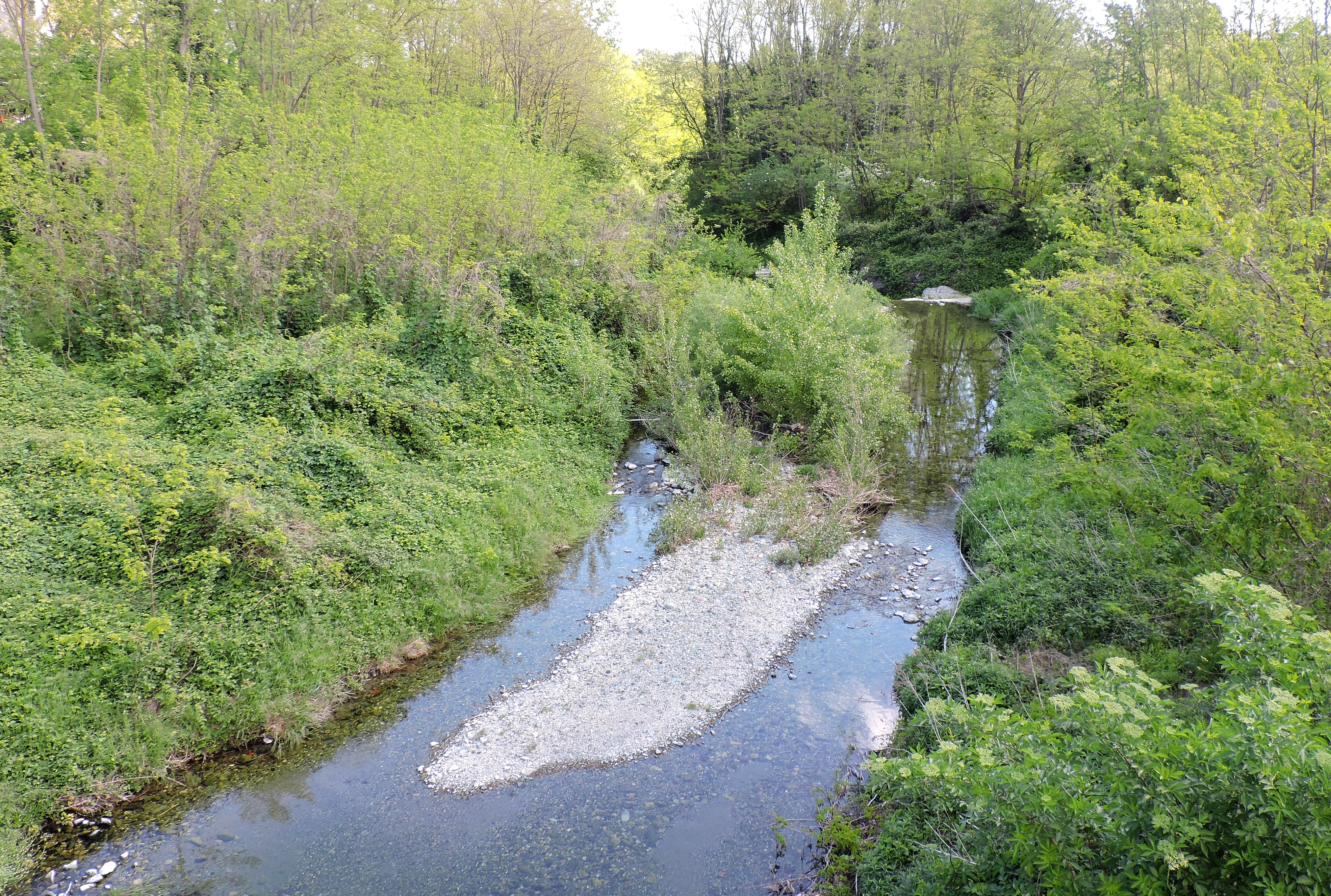 Torrente Amione (AL, Italy)